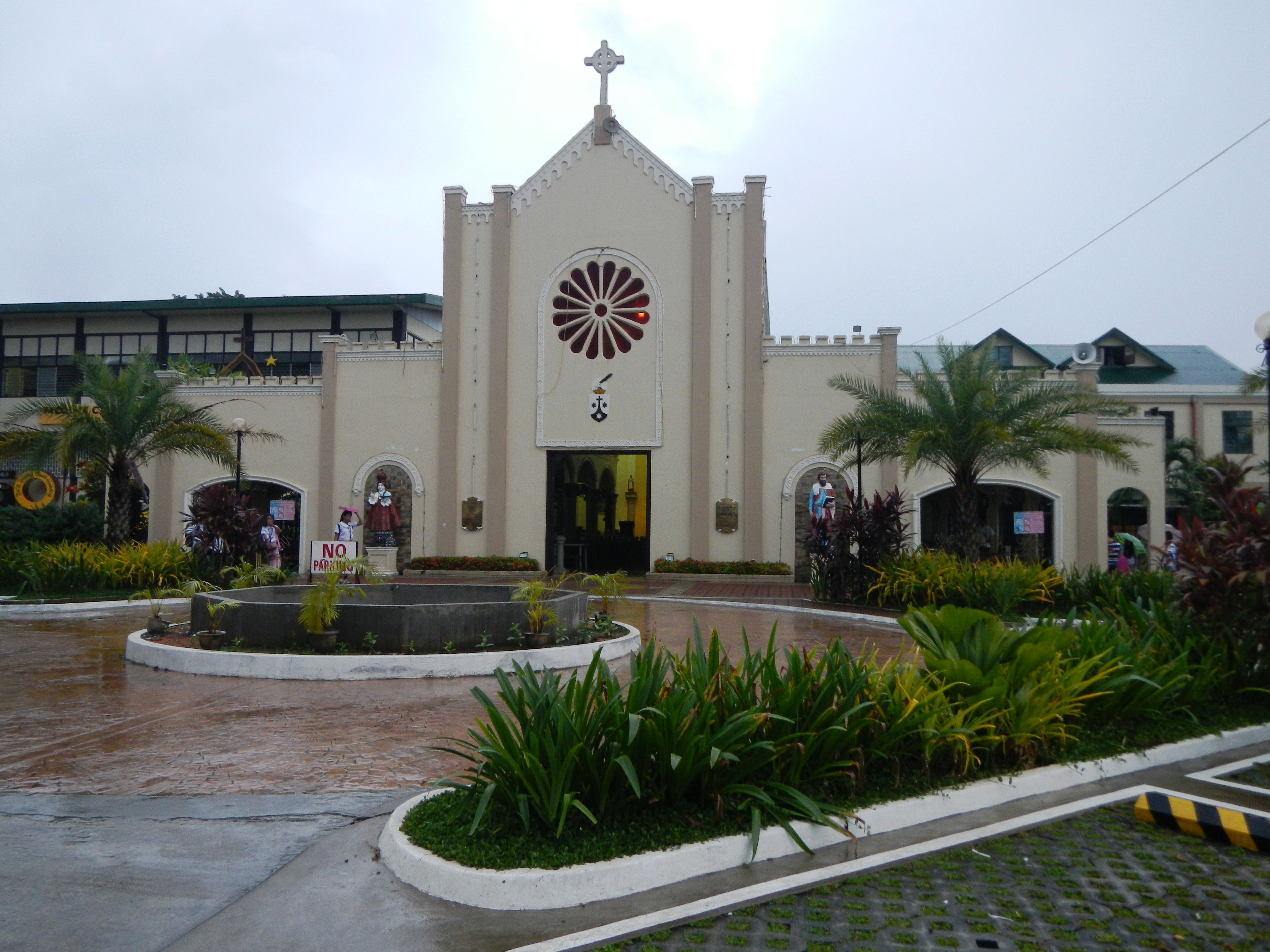 Upload Wizard photos of -- Town Proper Divine Infant Jesus of Prague and Saint Mark Parish Church of Infanta sunset photos of ---- Infanta, Quezon[1] [2] Land Area: 130.1 km² ZIP Code: 4336 Coordinates: 14°43'1"N 121°39'14"E Website.